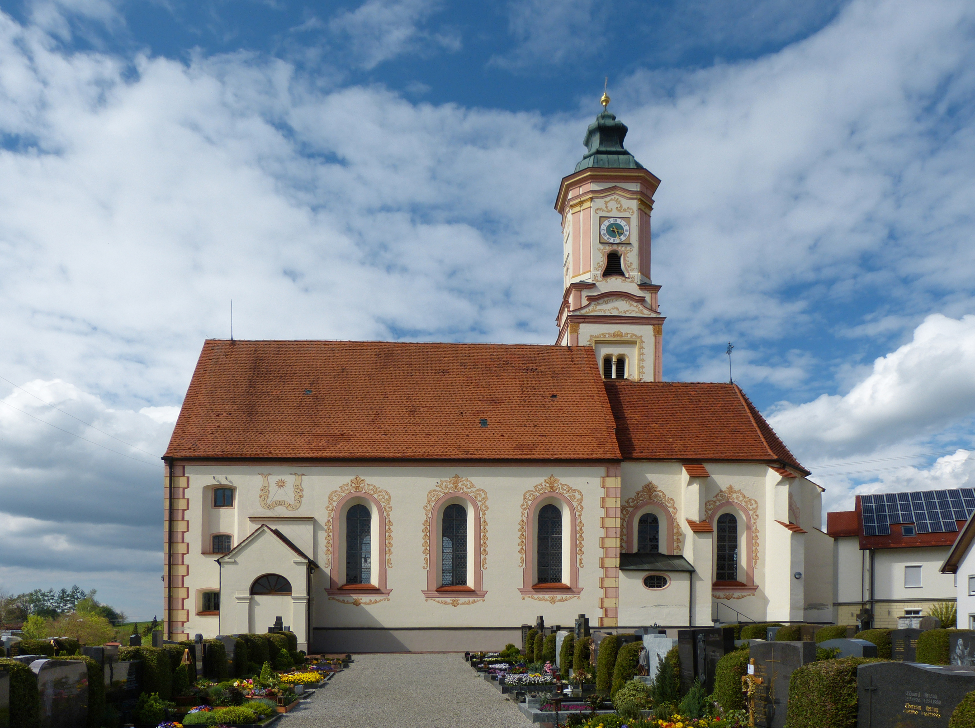 Church St. Stephan in Haselbach, Eppishausen, Landkreis Unterallgäu, Bavaria